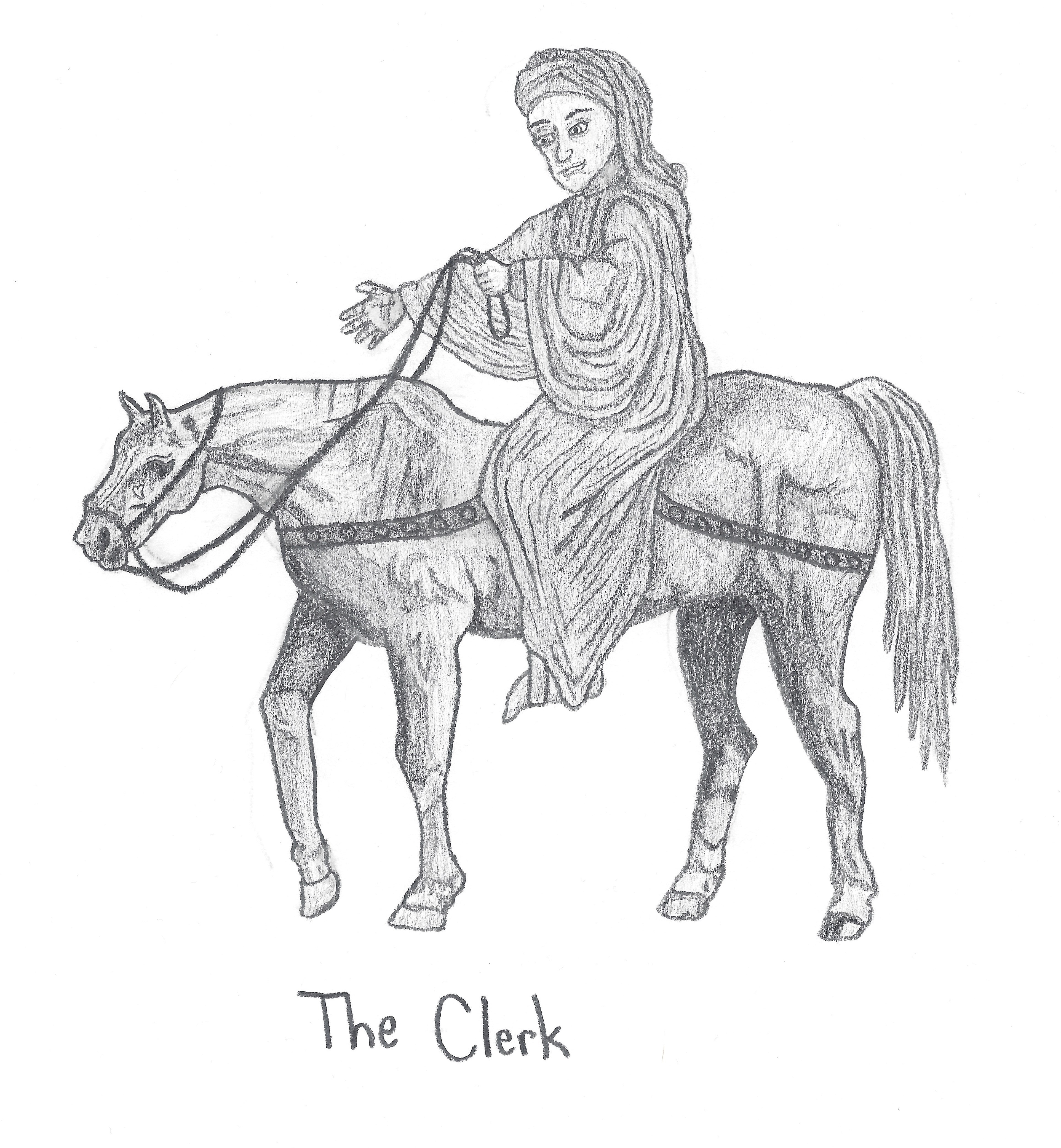 This is an illustration of the Clerk from The Canterbury Tales by Geoffrey Chaucer, showing him wearing the garb of a medieval scholar.